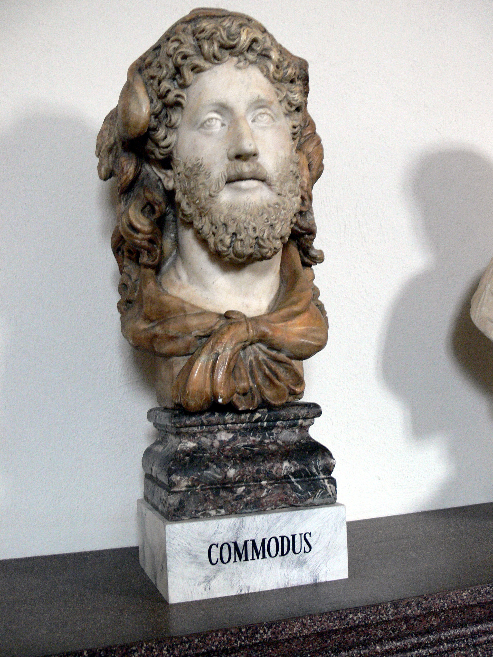 Antiques Museum in the Royal Palace, Stockholm. Bust of Roman Emperor Commodus as Heracles.